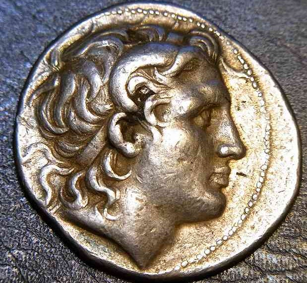 Portrait of Alexander III